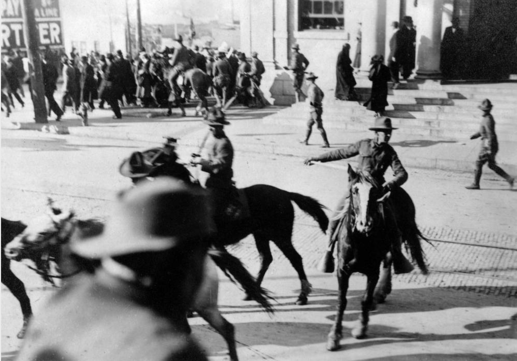 Members of the Colorado National Guard, some on horseback, disperse demonstrators, participants in a march to free Mother Jones and support the UMWA strike against CF&I, near the Post Office on Main Street in Trinidad, Las Animas County, Colorado.